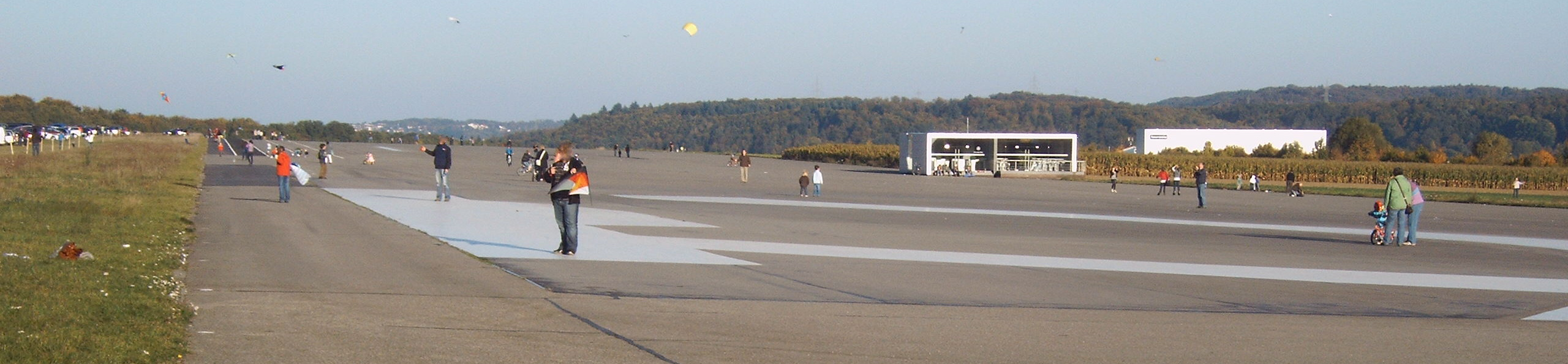 Kite festival at Malmsheim Airfield